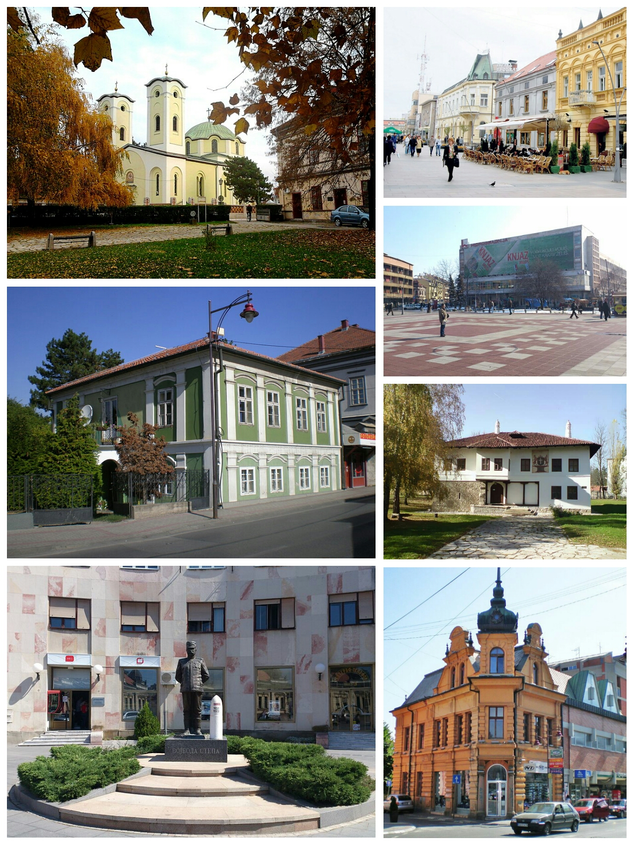 Photomontage of Čačak (Church of the Dormition of the Lord, Urban promenade, Town square, Library in Čačak, National museum in Čačak, Stepa Stepanović monument in Čačak, Aćimović house)